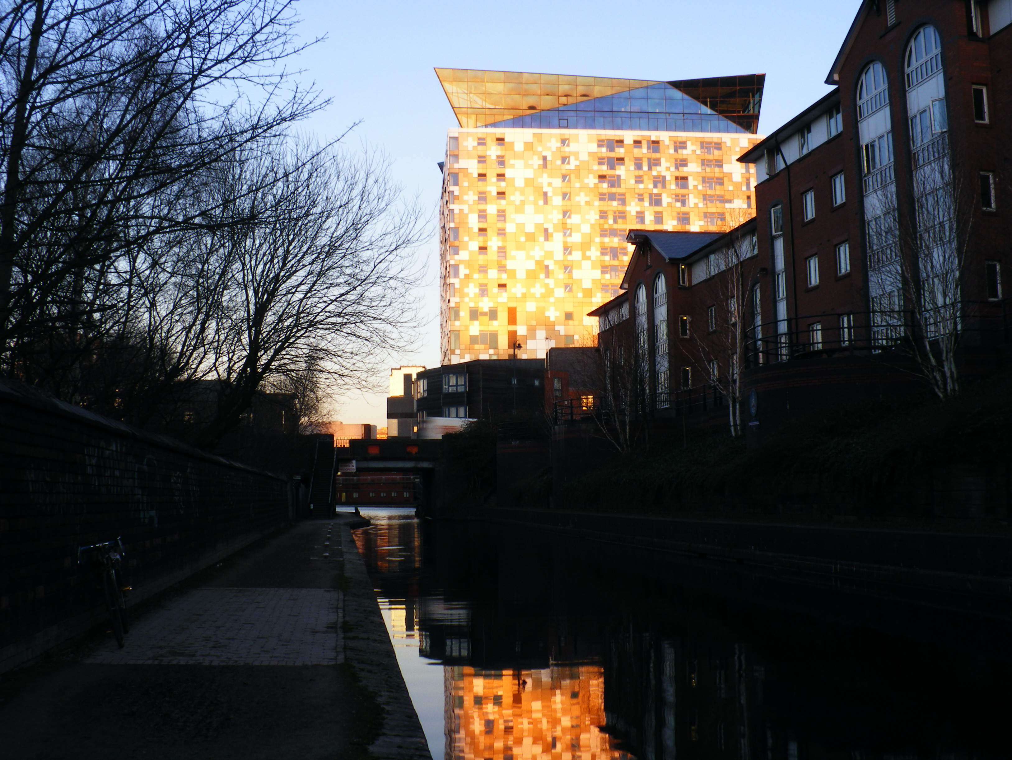 The Cube, Birmingham, from the canal.